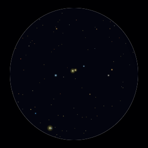 Alfa Capricorni